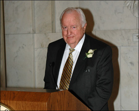 (U.S. government site) Leonidas Ralph Mecham, retiring Director of the U.S Administrative Office of the United States Courts accepting an honor at the 2006 Judicial Conference.